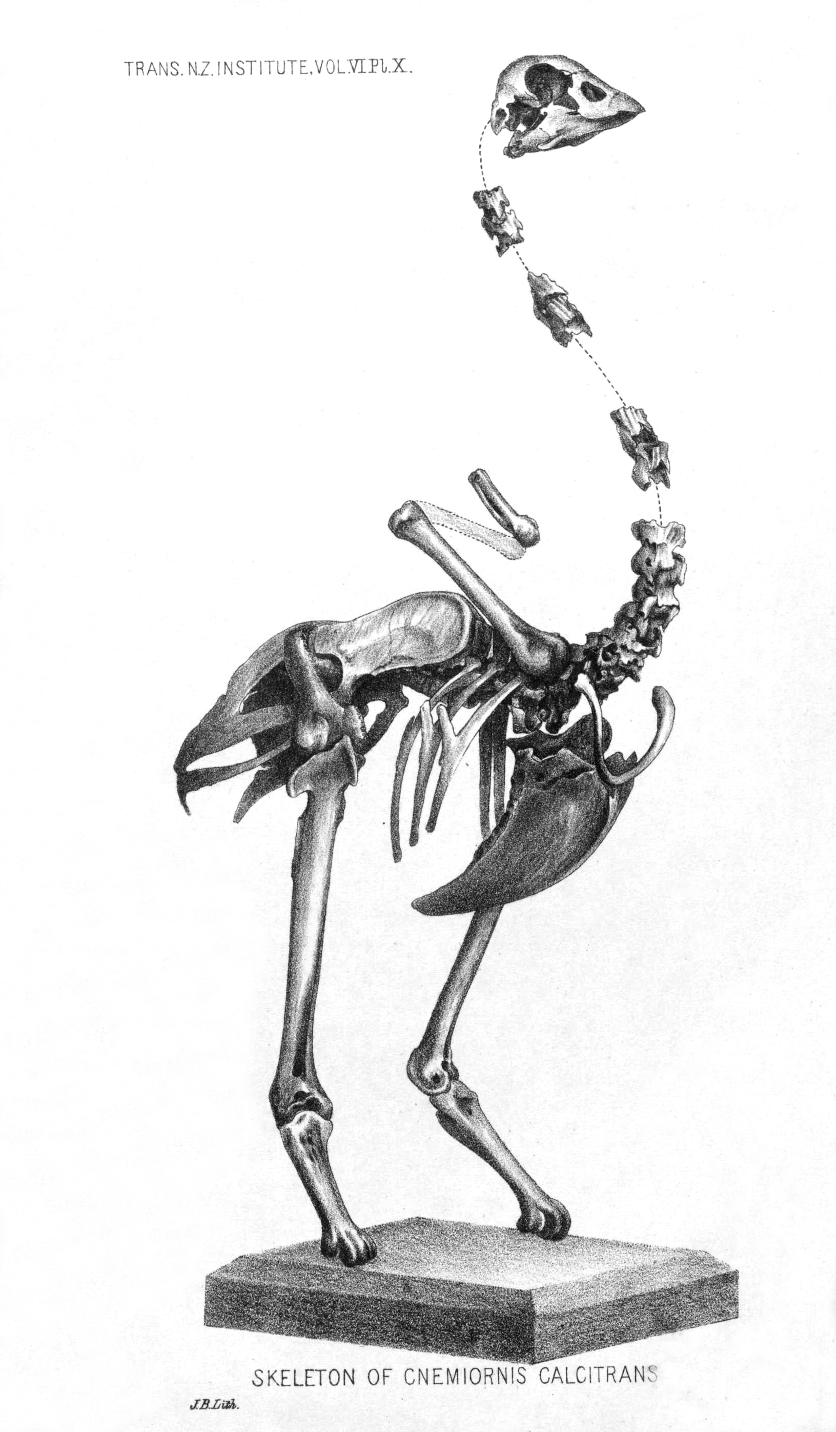 Engraving of skeleton of Cnemiornis calcitrans.